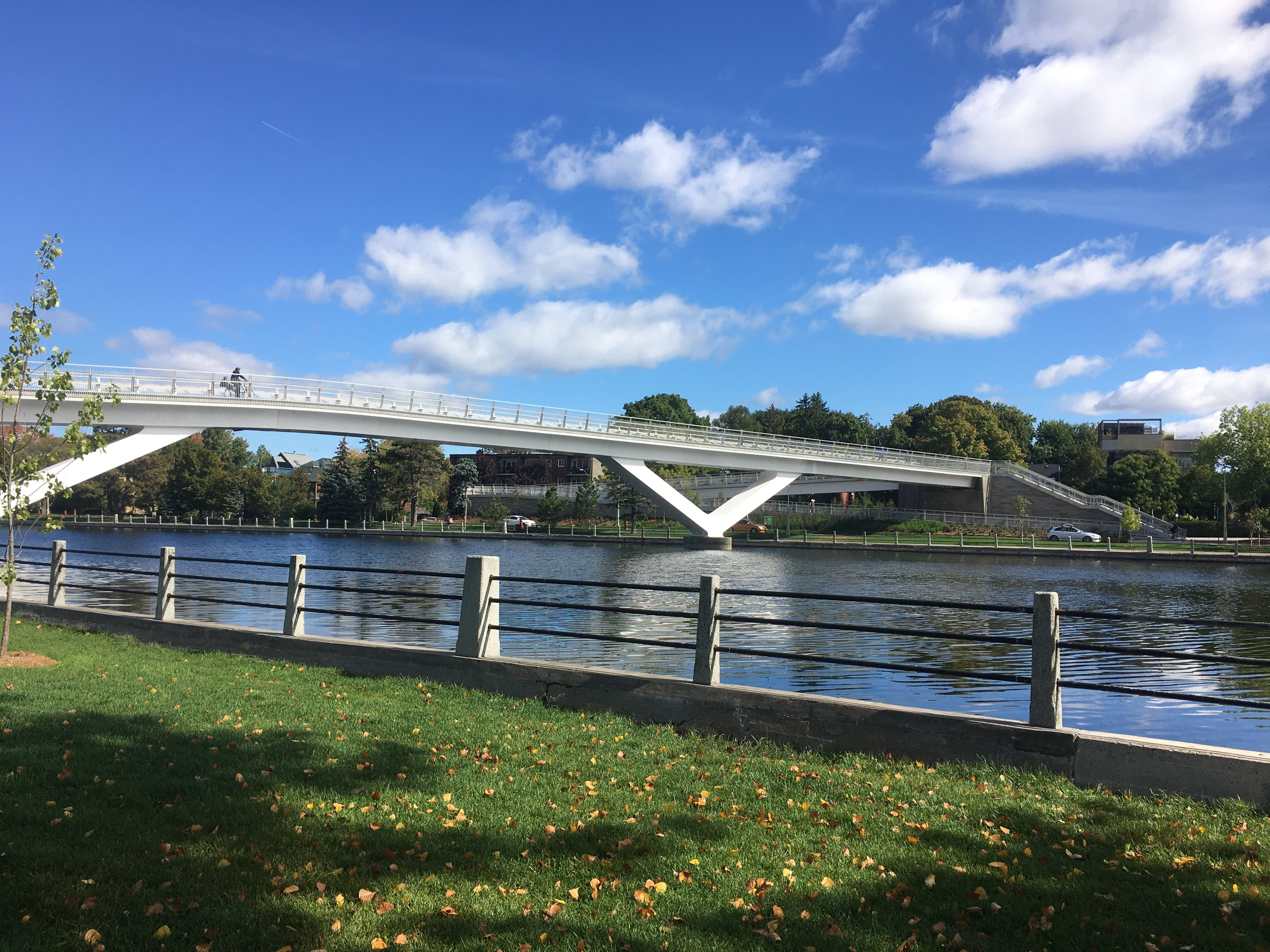 The Flora Footbridge crossing the Rideau Canal from Colonel By Drive to Queen Elizabeth Driveway. Image taken September 29, 2019